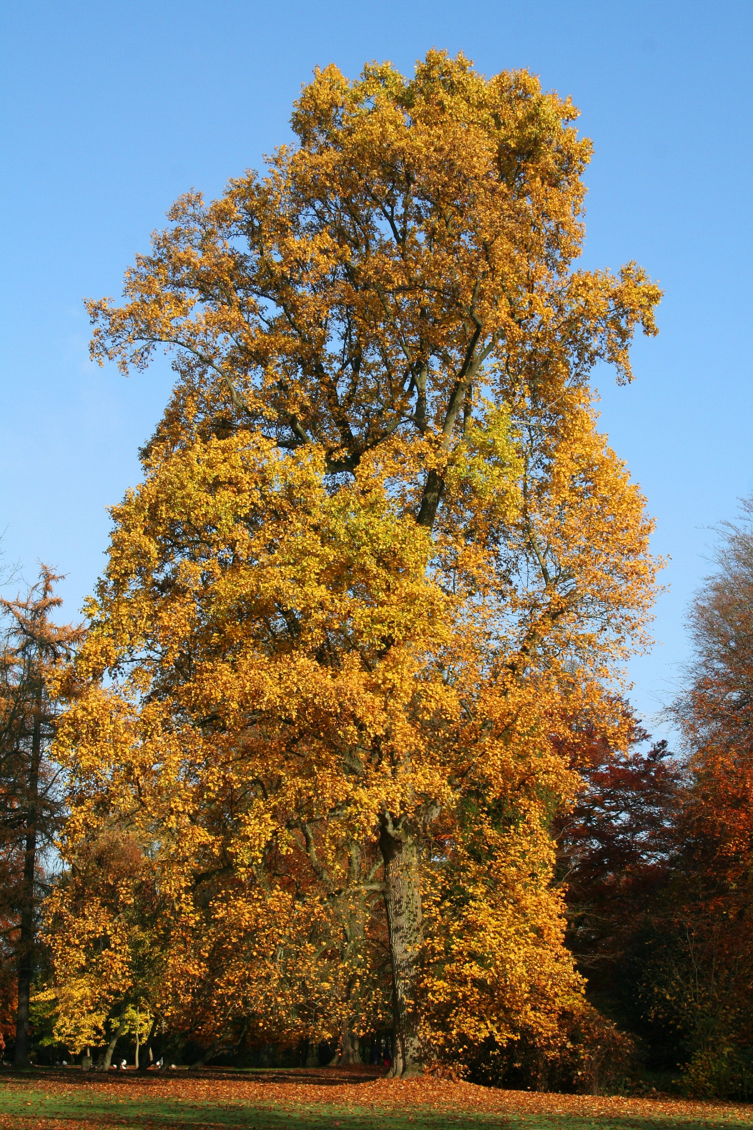 American tulip tree , tulip poplar or yellow poplar (Liriodendron tulipifera).